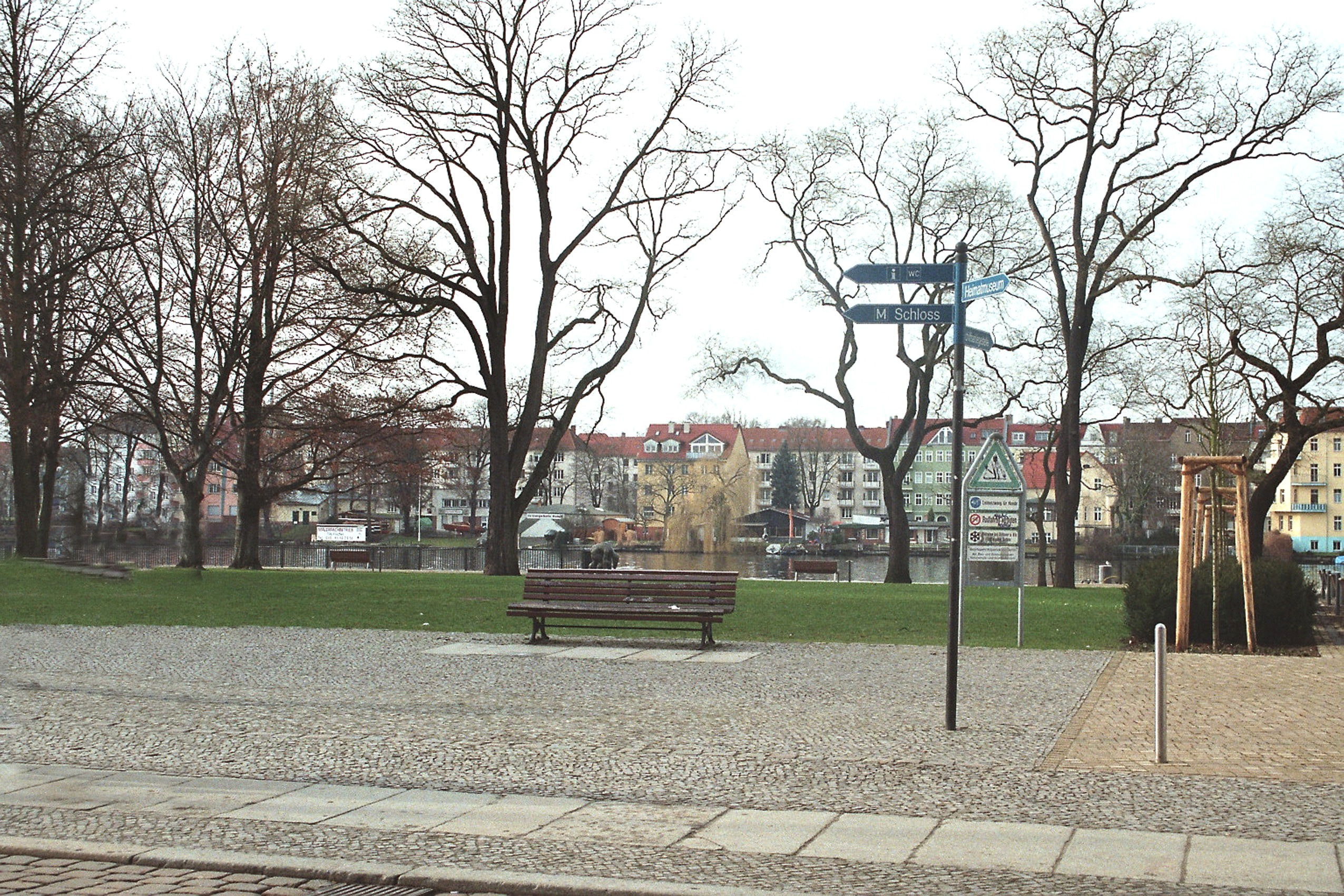 Berlin-Köpenick, the park Luisenhain